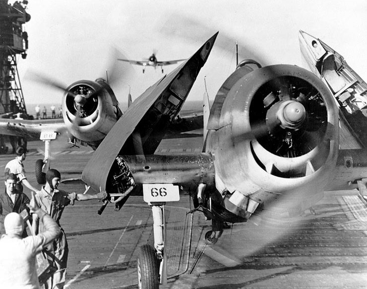 Grumman F6F-3 "Hellcat" fighters of fighter squadron VF-10 Grim Reapers, Carrier Air Group 10 (CVG-10), landing on the U.S. aircraft carrier USS Enterprise (CV-6) after strikes on the Japanese base at Truk, 17-18 February 1944. Flight deck crewmen are folding planes' wings and guiding them forward to the parking area.